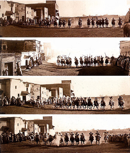 Fantasia in Morocco, photographed by Gabriel Veyre